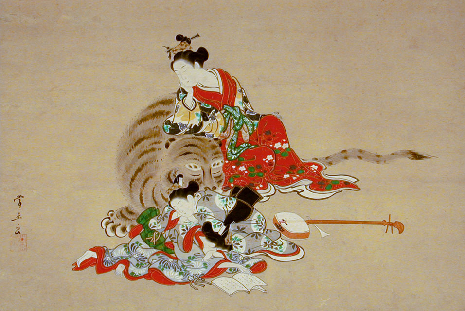 The Four Sleepers Japan by Kawamata Tsunemasa, c. 1745. Ink, color and gold pigment on paper. Pacific Asia Museum, Pasadena, California